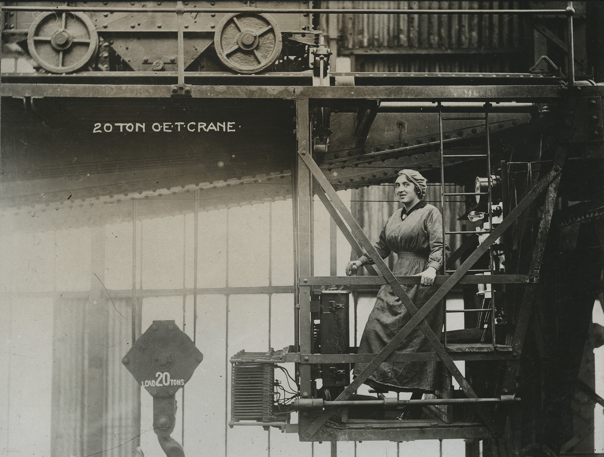 No known copyright restrictions. Please credit UBC Library as the image source. For more information, see Alternative Title: What the daughters of Britain are doing Creator: Unknown Date Created: 1914 Source: Original Format: University of British Columbia Library. Rare Books & Special Collections. World War I 1914-1918 British Press photograph collection. BC 1763. Permanent URL